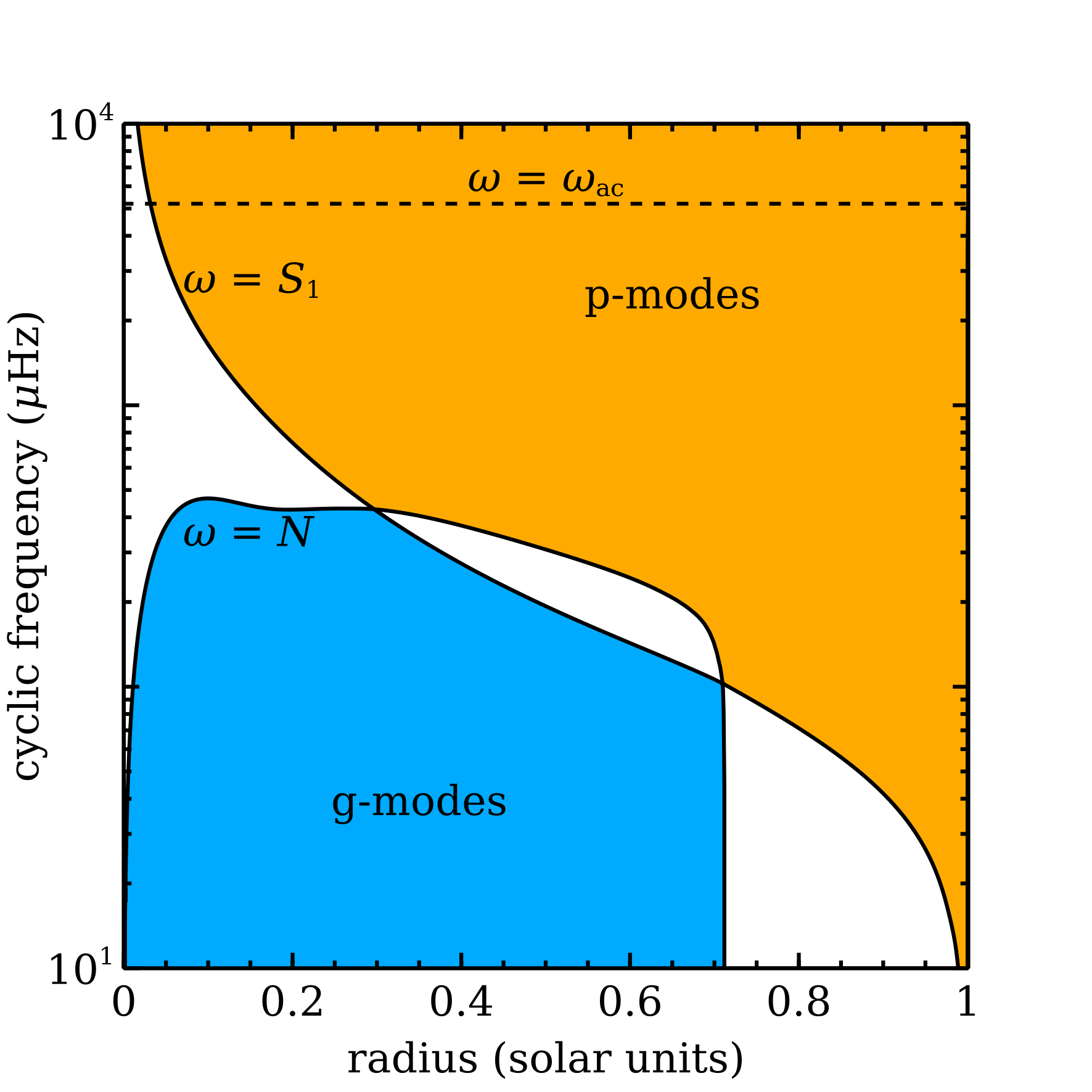 A propagation diagram for a standard solar model (Model S, Christensen-Dalsgaard et al. 1996).